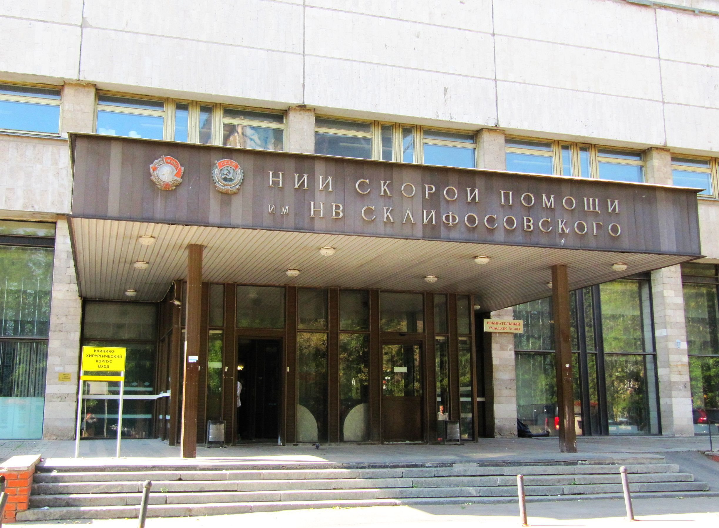 Main entrance of Sklifosovsky Institute in Moscow (View from the lane Grokholsky)